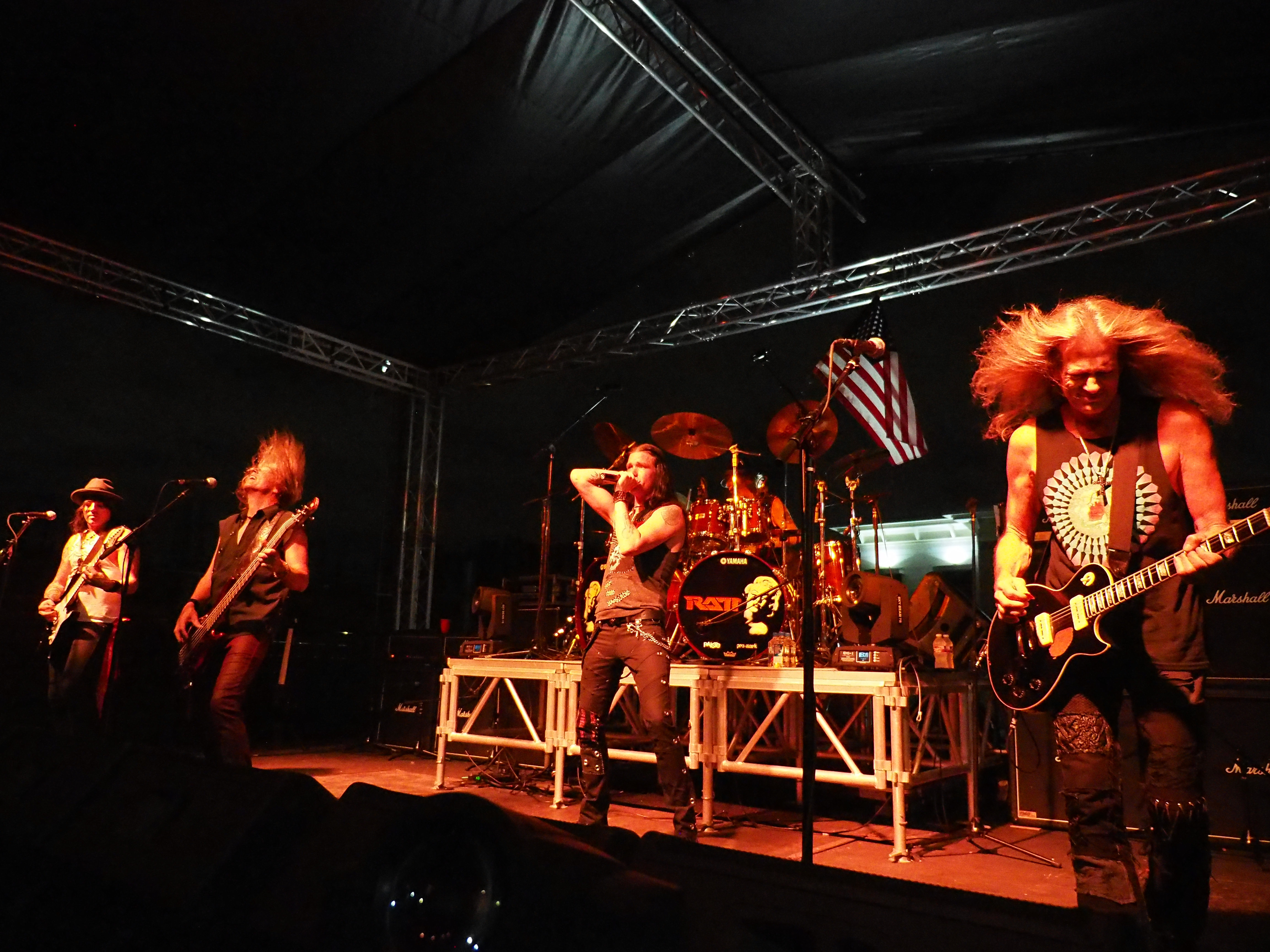 RATT performing in Houston October 12, 2016.